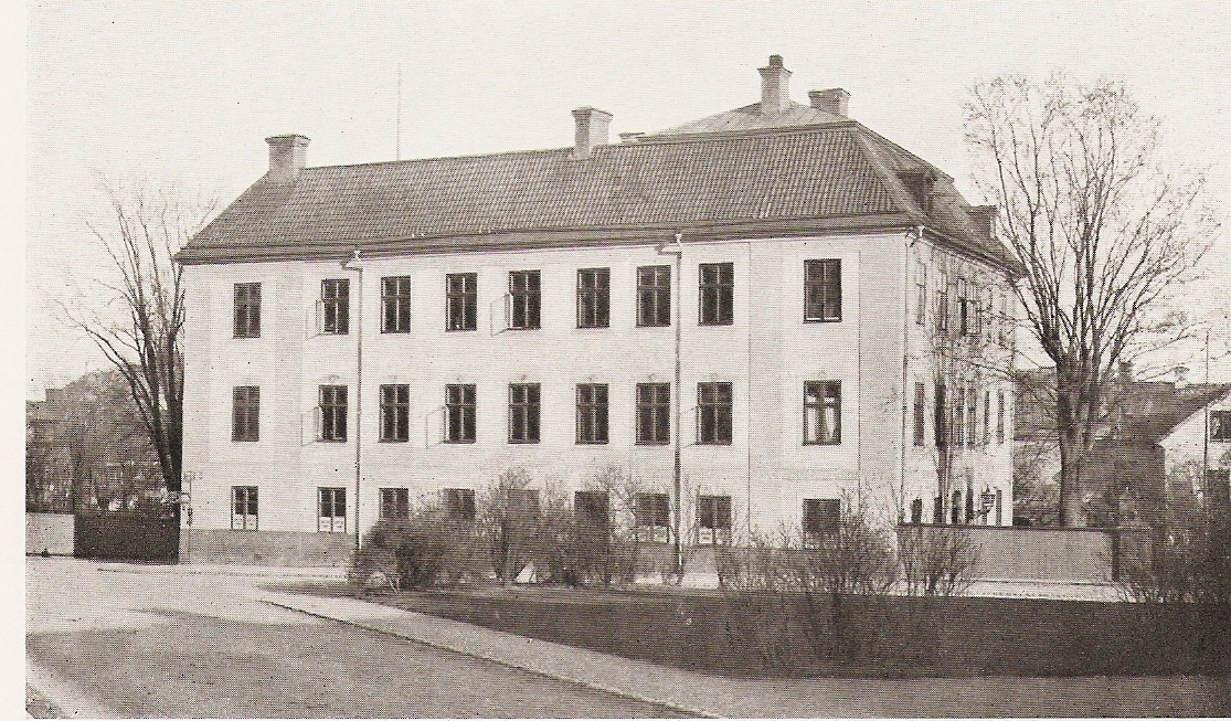 Värmlands 1st nation house Uppsala 1884-1930